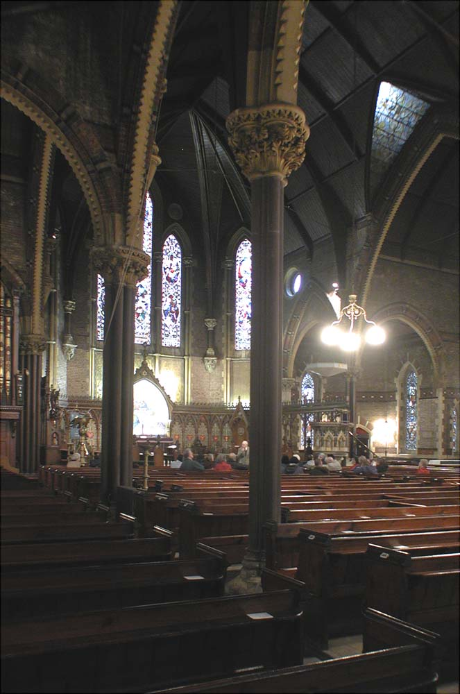 St Mark, Dalston, London E8 - Interior